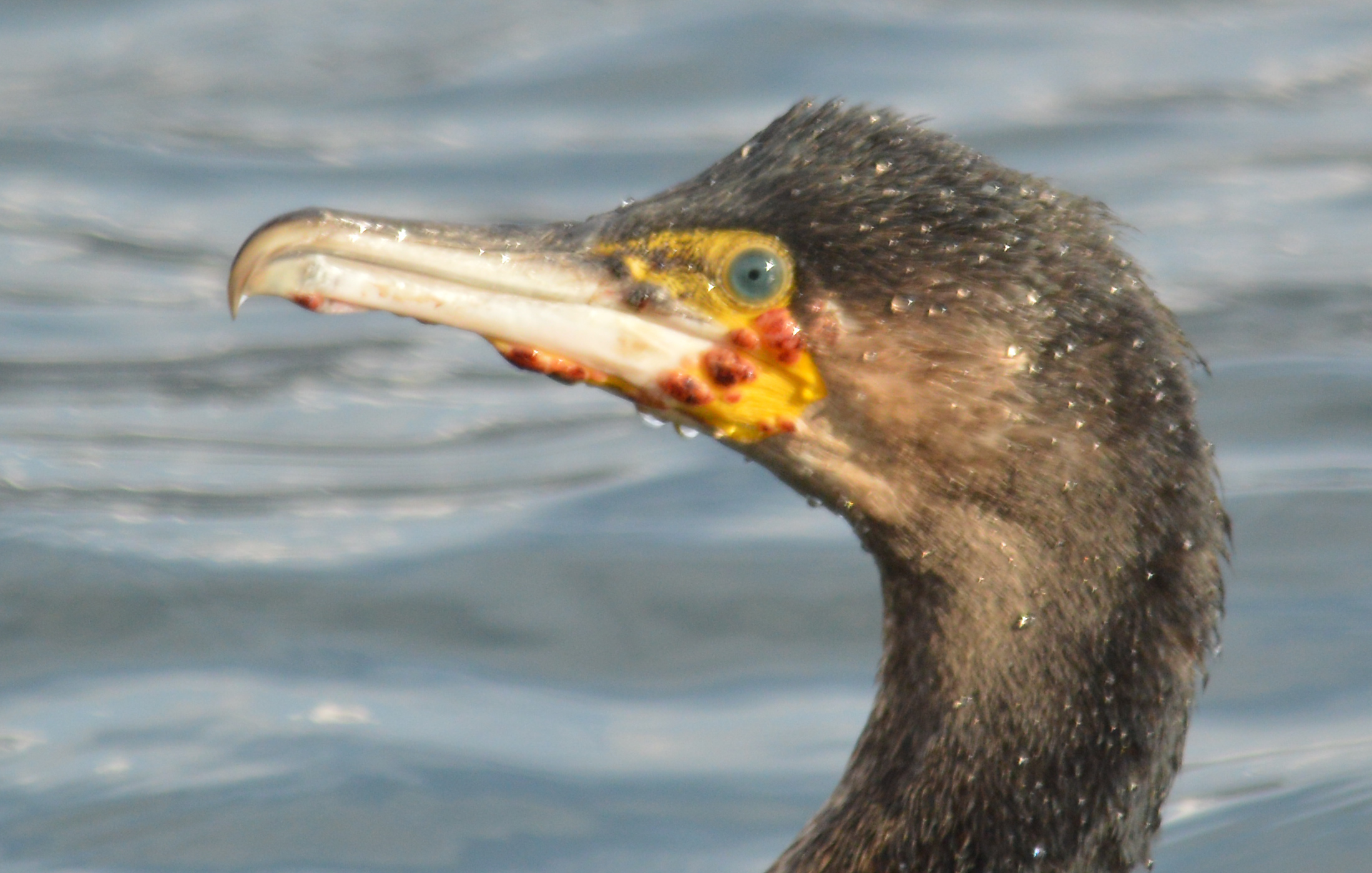 Image 02 of 13. This immature Great black cormorant (Ph. c. sinensis), winterguest at the lake in Zell am See, Salzburg (state), Austria, is probably suffering from Avian pox. In 13 pictures that were taken between the 4th February and 8th March 2015 the externally visible course of the disease is documented by means of profile measurements (right and left).